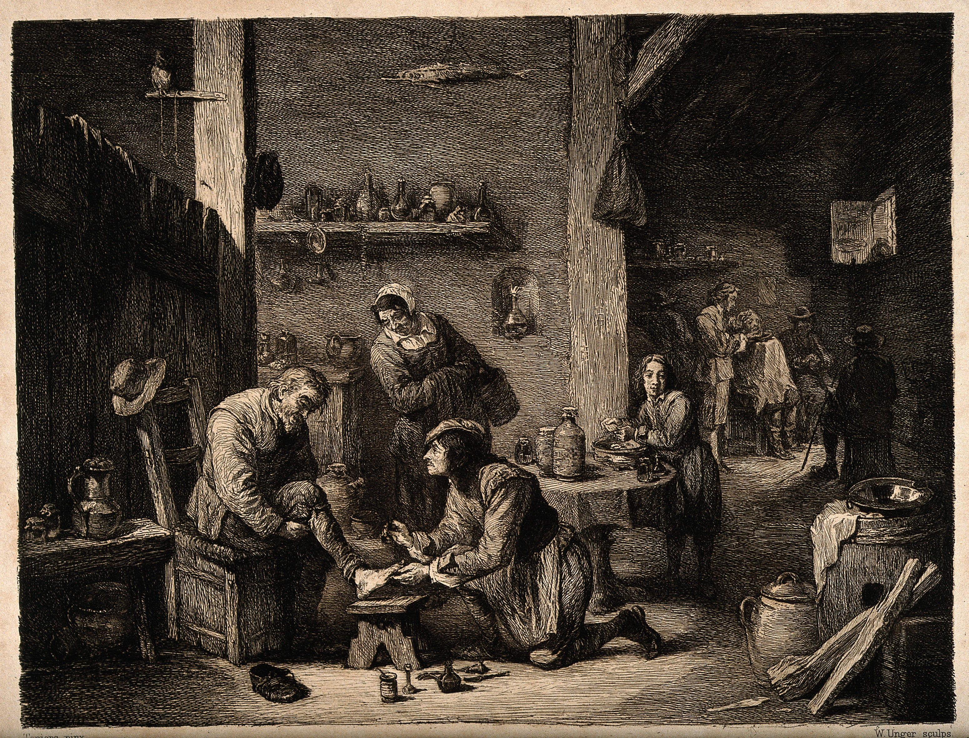 A rural surgeon treating an elderly man's foot, in the background an assistant is mixing a concoction with a pestle and mortar amidst a busy workshop. Etching by W. Unger after D. Teniers, the younger. Iconographic Collections Keywords: Wilhelm Unger; David Teniers